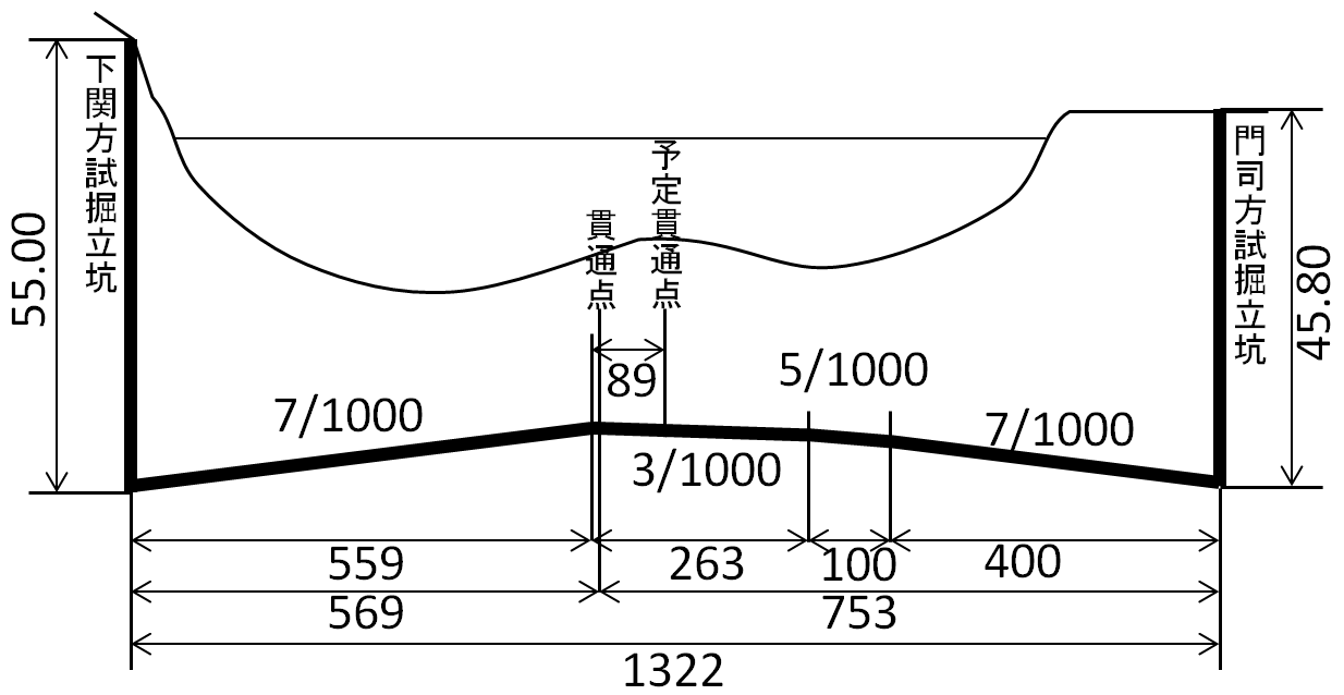 Longitudinal drawing of service bore of Kammon railway tunnel